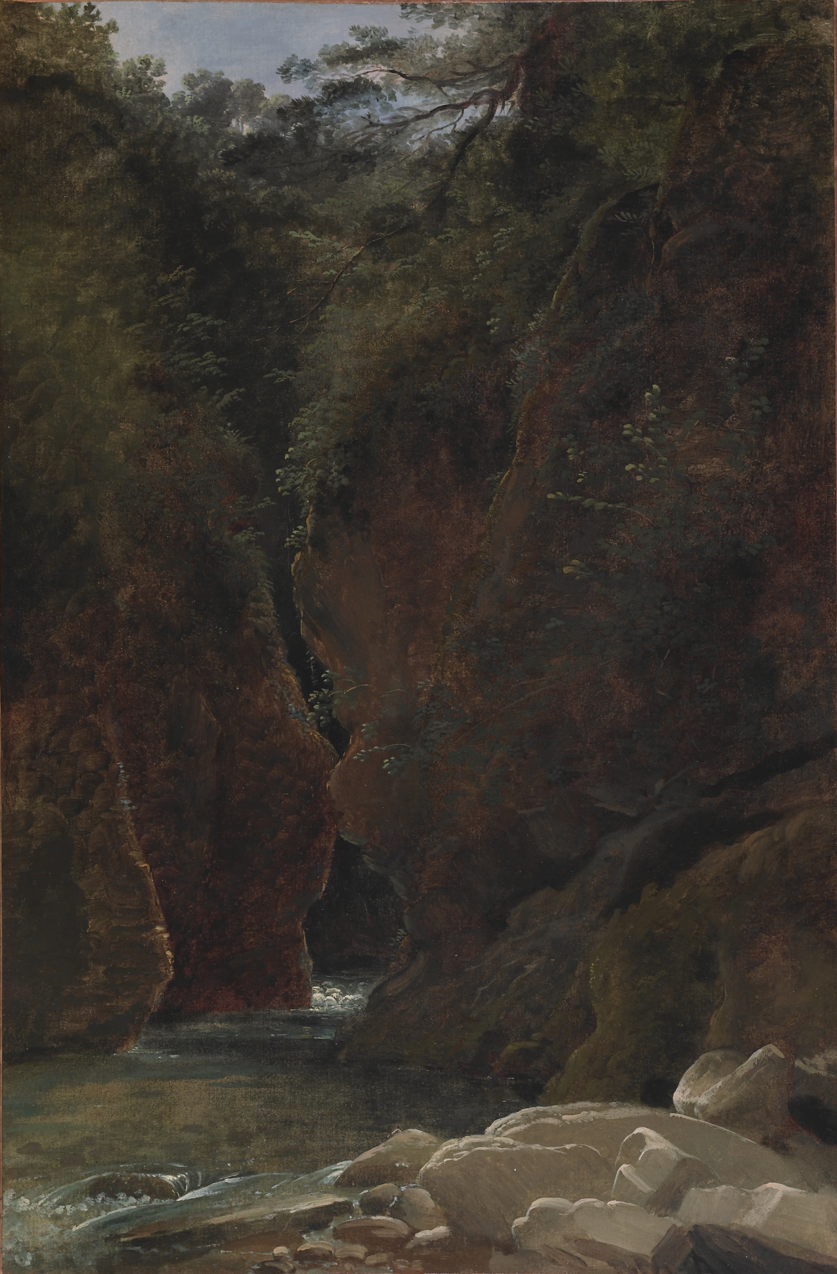 Chauvin specialized in idealized landscapes with classicized figures or antique themes. He based his art, however, on the direct perception of nature, making quick oil sketches like this one, done outside. Such oil sketches were not considered works of art in their own right; rather, they were kept by the artist for later use in the studio as a means of refreshing his memory or as a teaching aid. Today, these oil studies are more highly valued and collectible than the large-scale neoclassical landscapes for which they were originally mere preparatory studies, because they are the direct forerunners of impressionist painting.